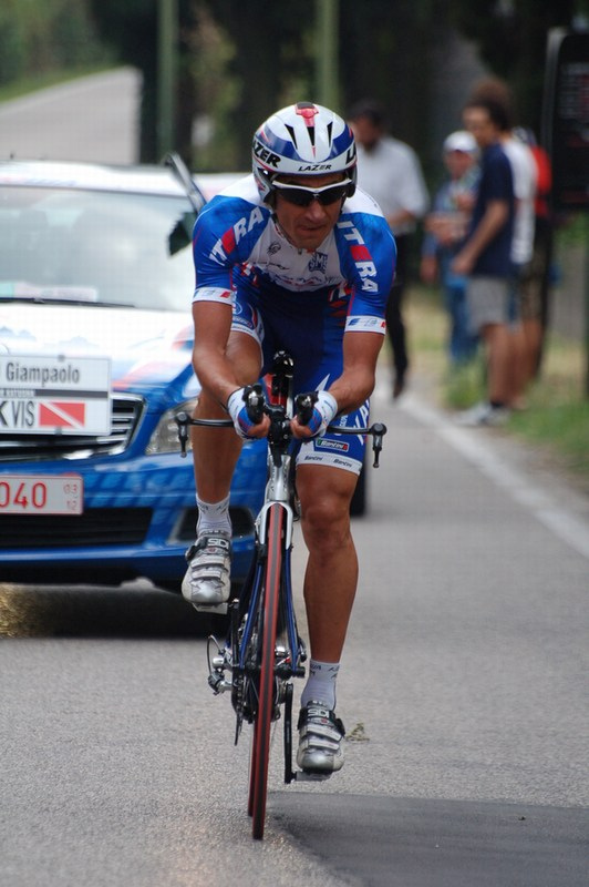 Giampaolo Caruso, Giro d'Italia 2010